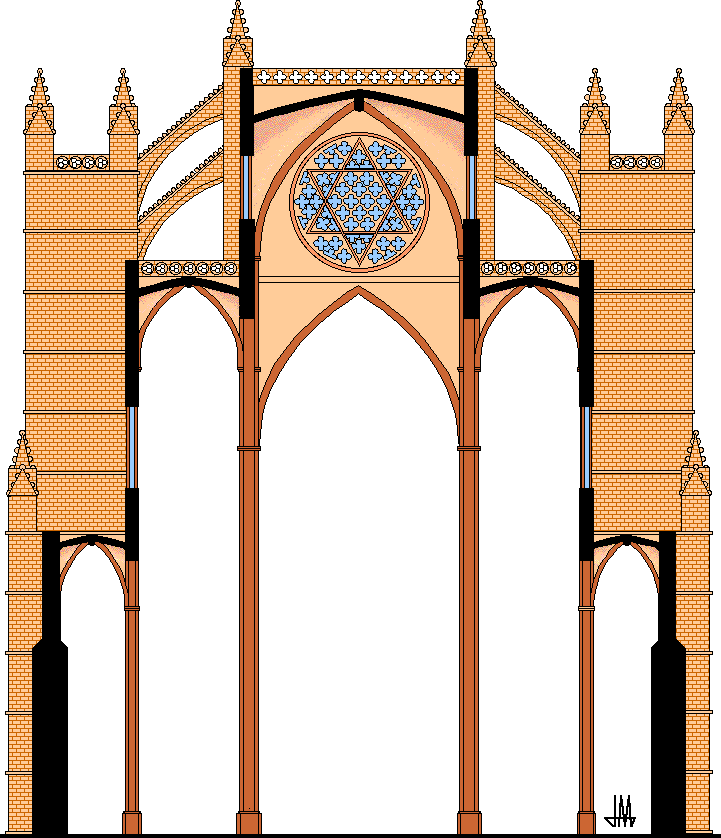 Section of the cathedral of Palma de Mallorca (Spain).